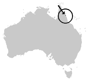 Distribution of the Scanty Frog (Cophixalus exiguus) User:Froggydarb/GFDL-self